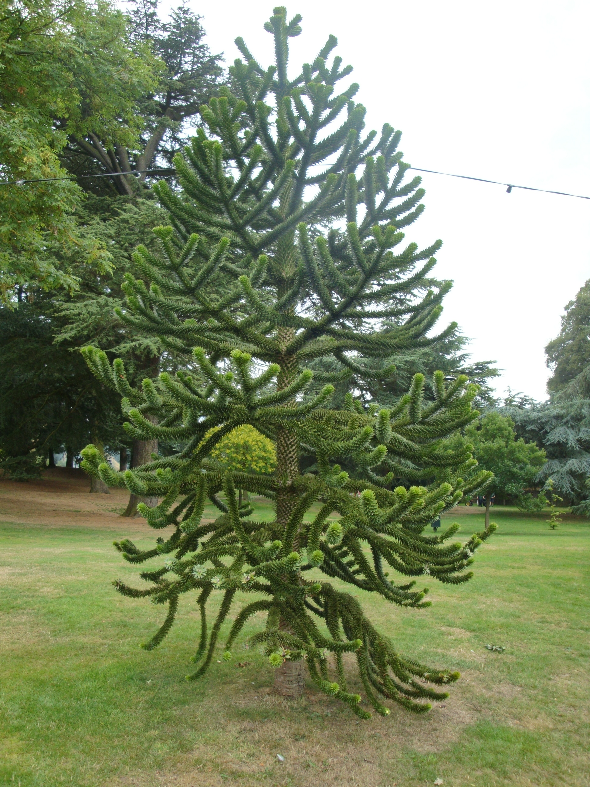 Araucaria araucana in Warwick Castle.